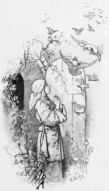 illustration of the Brothers Grimm fairy tale "Cinderella"